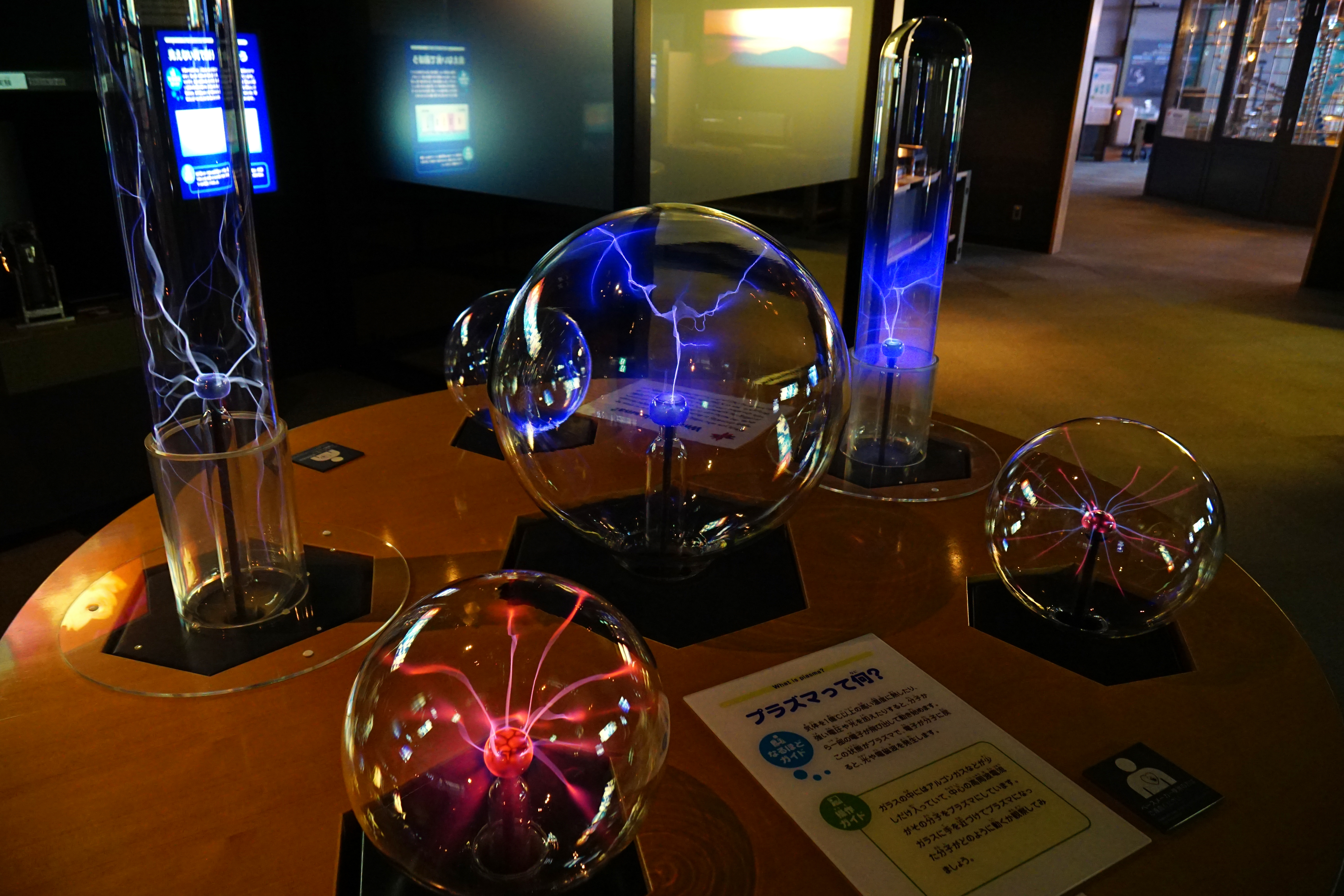 At Misawa Aviation & Science Museum, Aomori in Misawa, Aomori prefecture, Japan.